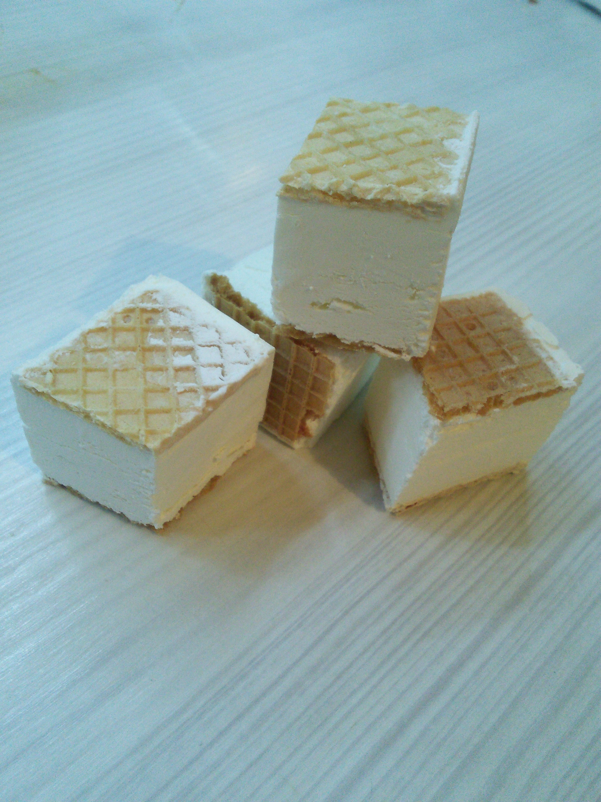 Freeze dried Ice Cream Sandwich